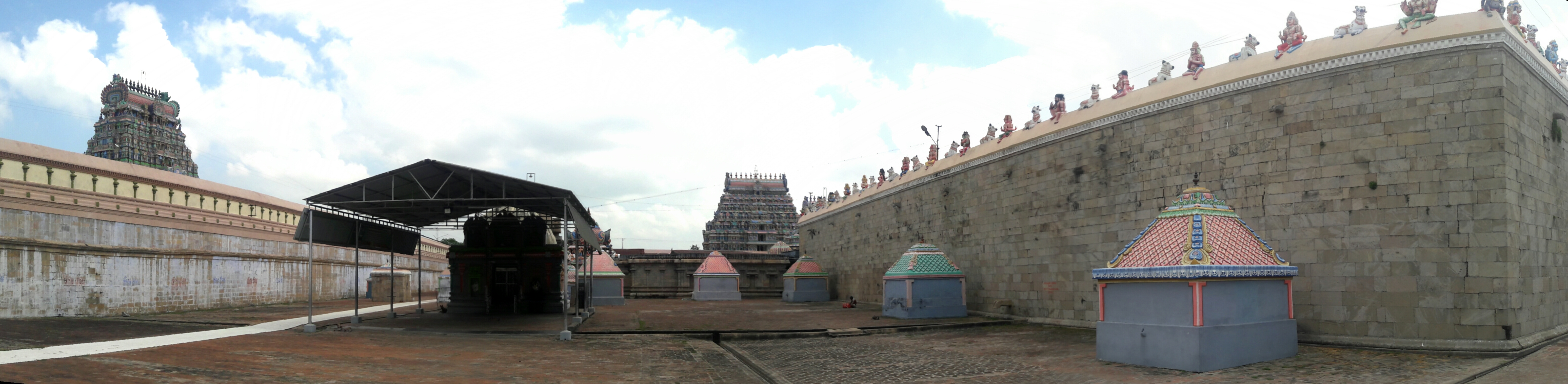 Thiruvarur temple